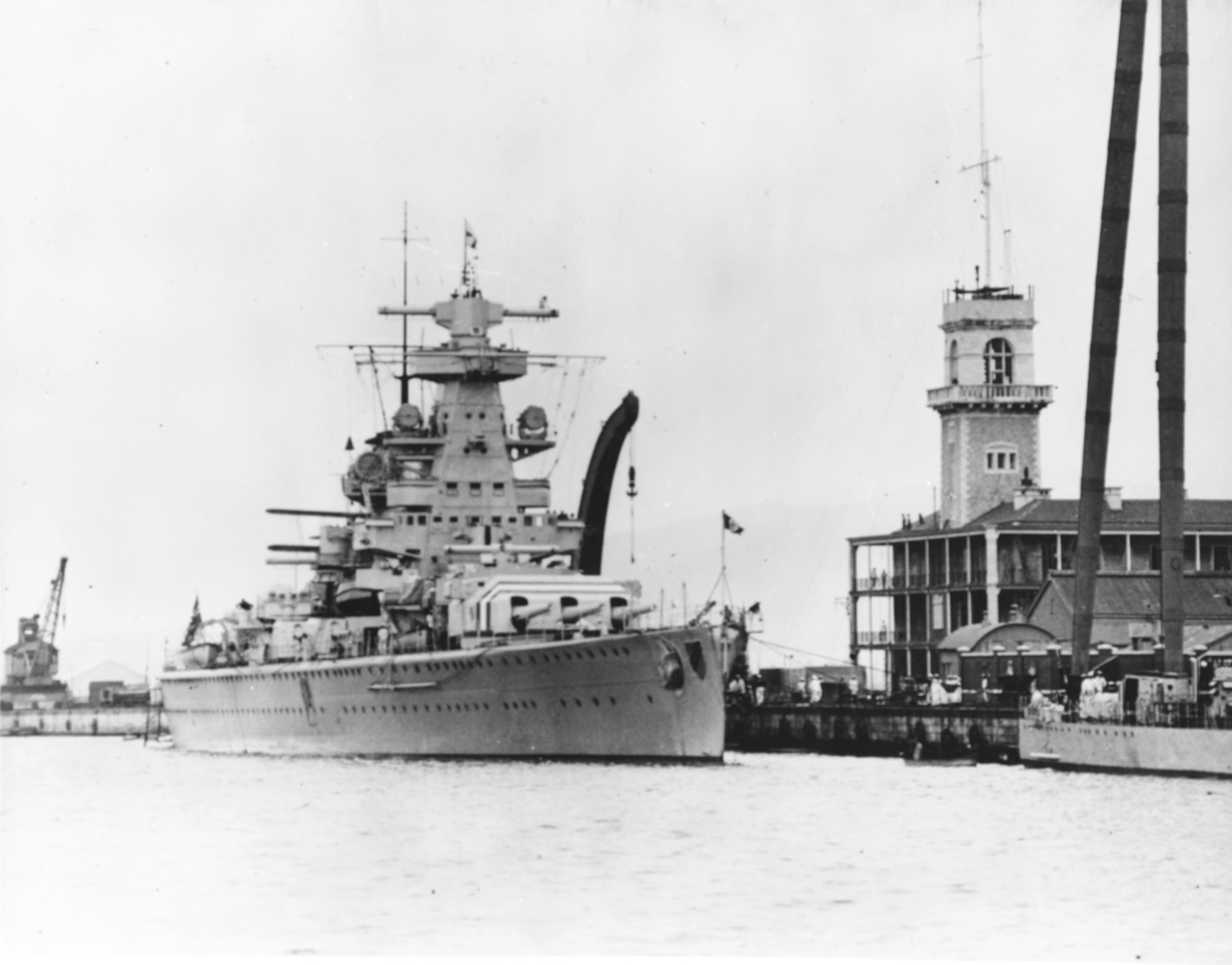 The German cruiser ("pocket battleship") Admiral Scheer in port at Gibraltar, circa 1936. Note the Spanish Civil War neutrality markings (red, white & black stripes) painted on her forward gun turret.